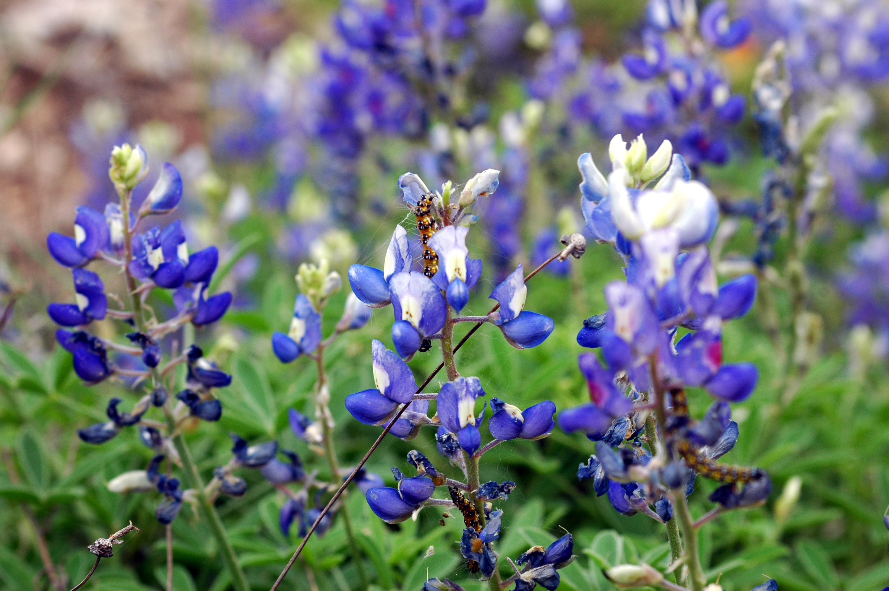 Best viewed large. Here is the caterpillar I mentioned and was not sure of the ID. This was my best guest as to the type of caterpillars that were all over the bluebonnets eating them. There are so many variations of these guys and the one I believe matched the color of this one was a small insert picture and hard to see any detail.